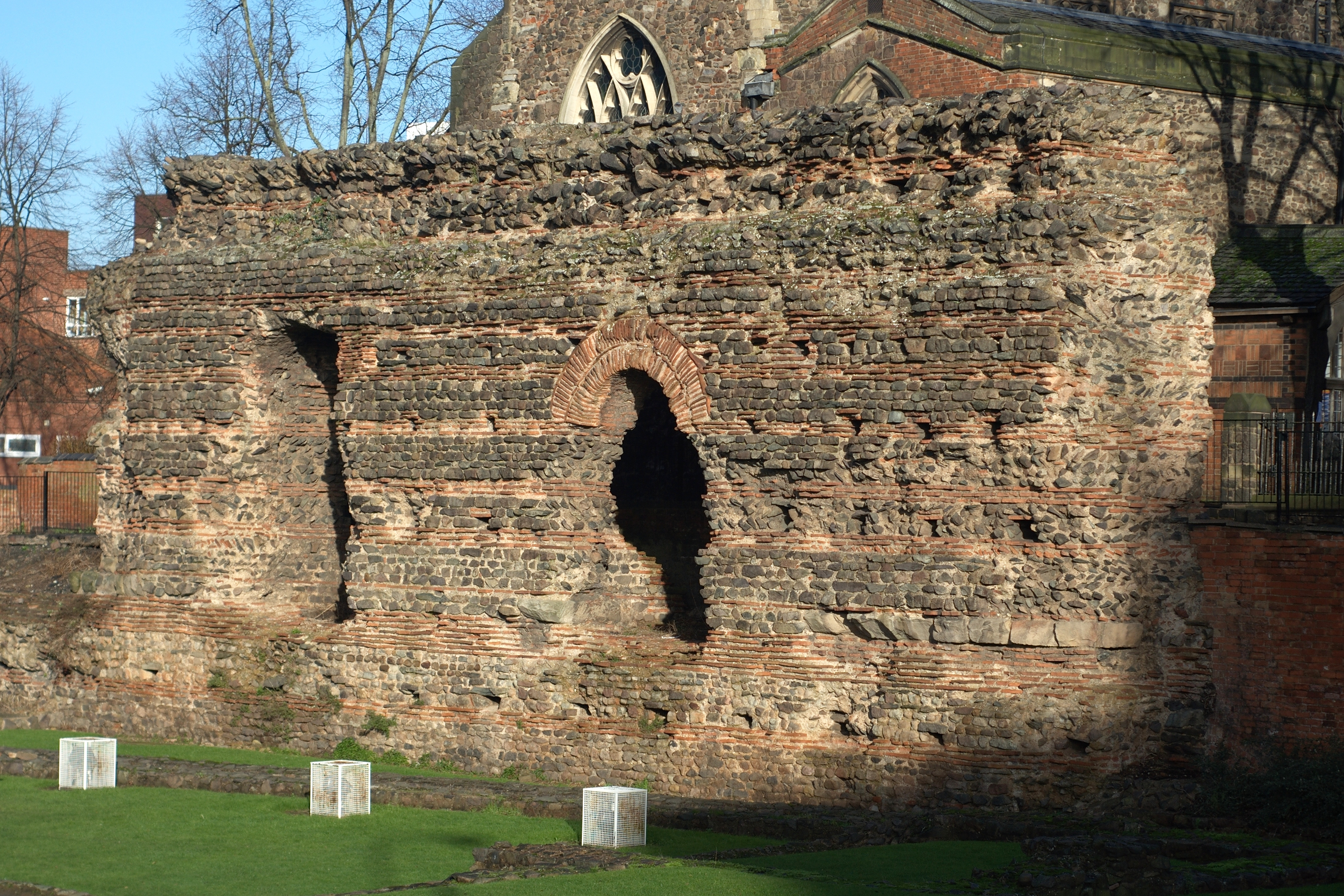 The Jewry Wall with St Nicholas' Church in the background in Leicester, England.